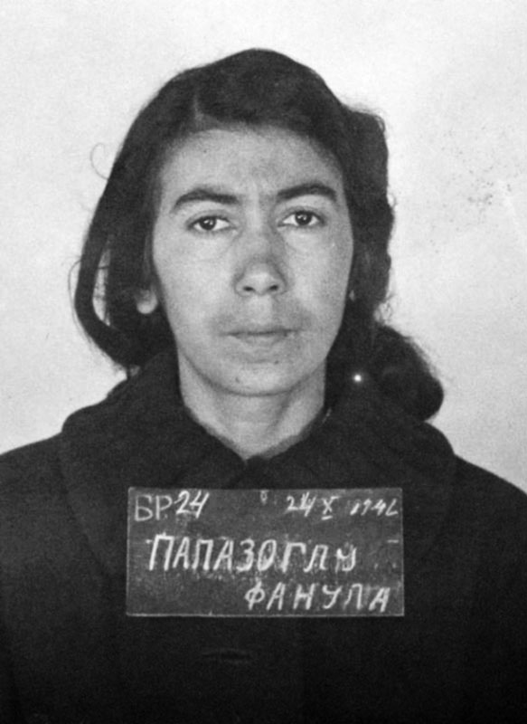 Later history professor Fanula Papazoglu in the Banjica concentration camp in 1942.